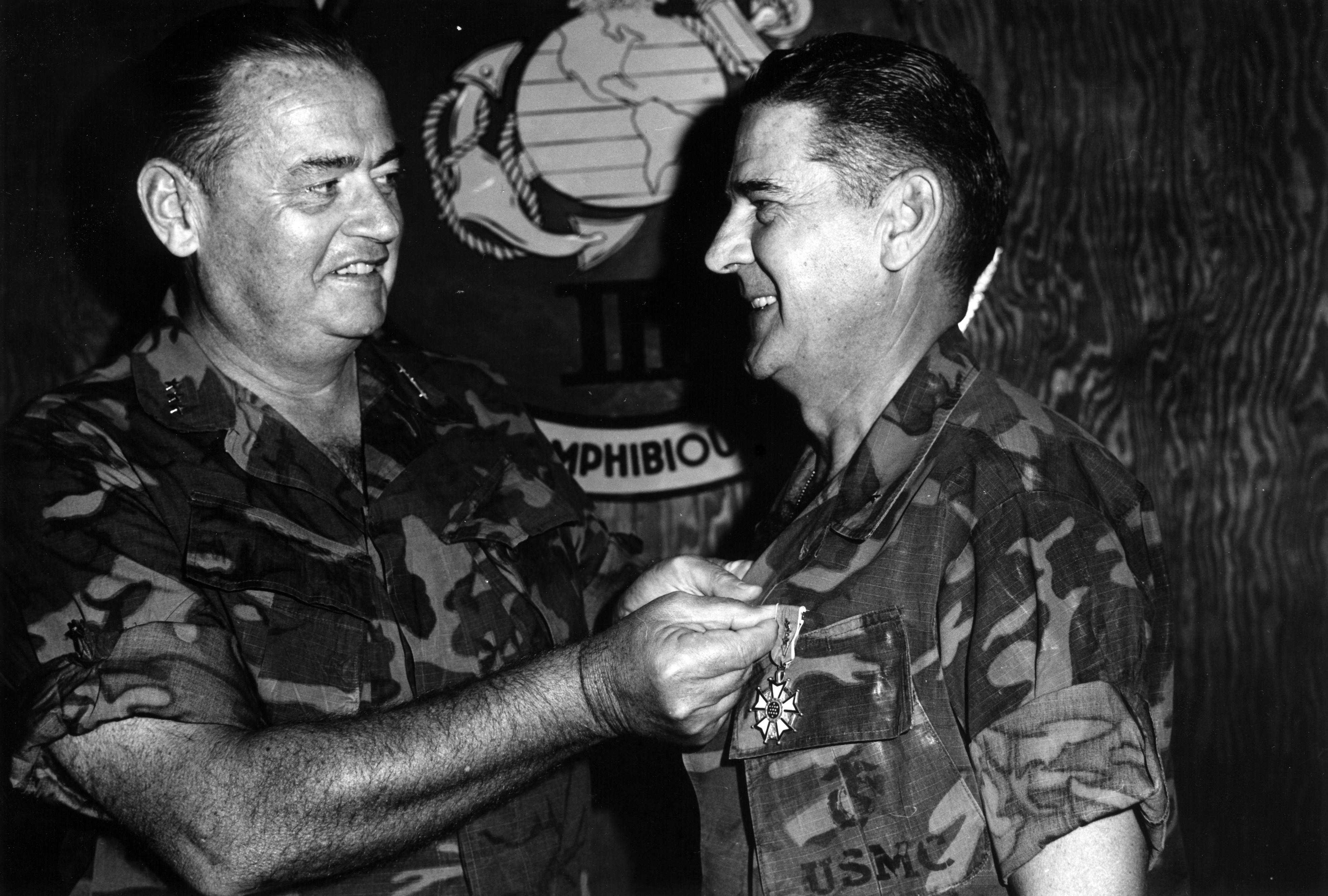 Brigadier general Leo J. Dulacki has a fourth award of the Legion of Merit pinned on his chest by Lieutenant general Henry W. Buse Jr., Commanding general, Fleet Marine Force, Pacific, in ceremonies at Camp Horn, headquarters site for III Marine Amphibious Force, in Da Nang, Vietnam.